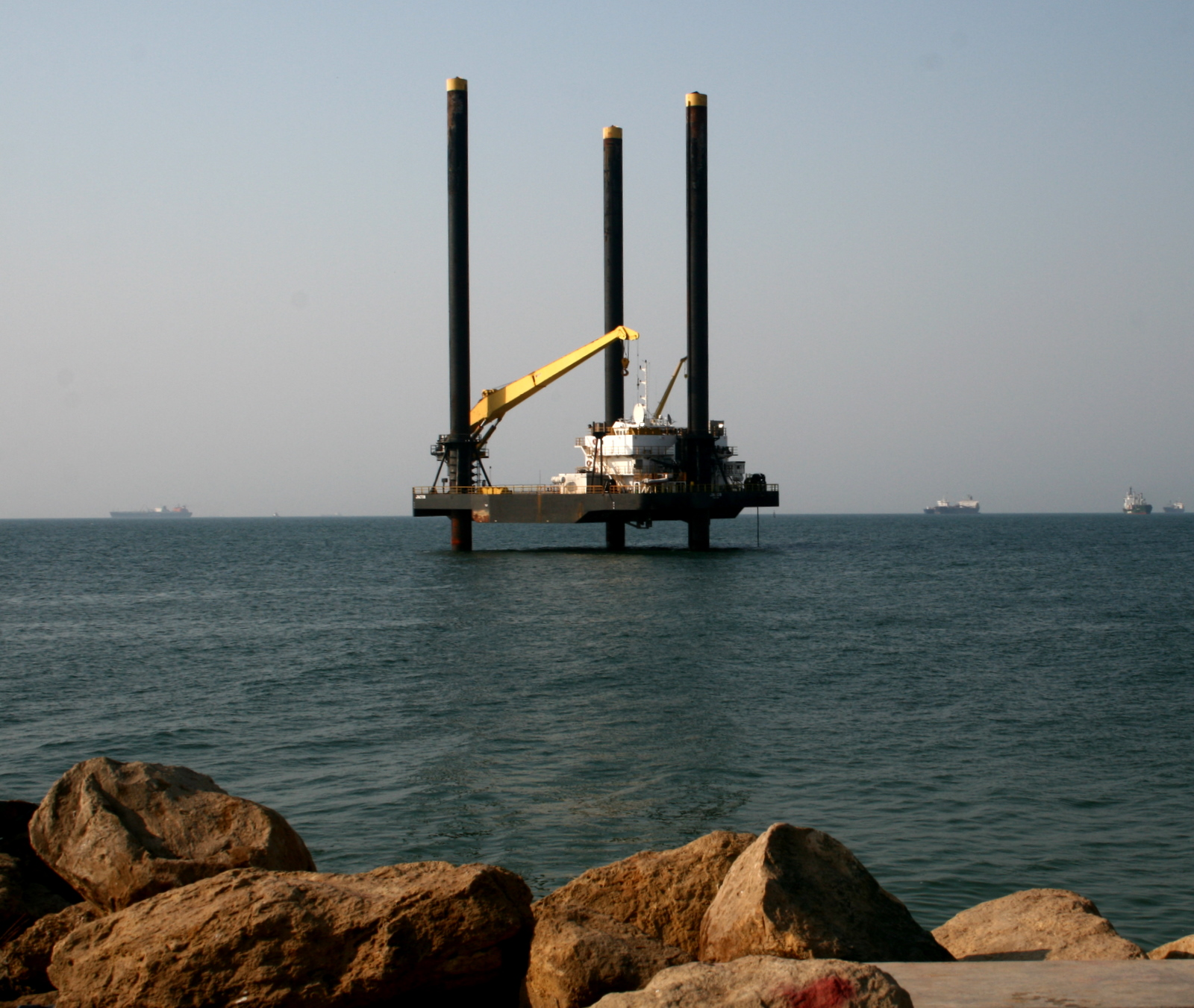 Offshore petrol platform prepared moving to final destination on high sea, Luanda, Angola, Atlantic Ocean